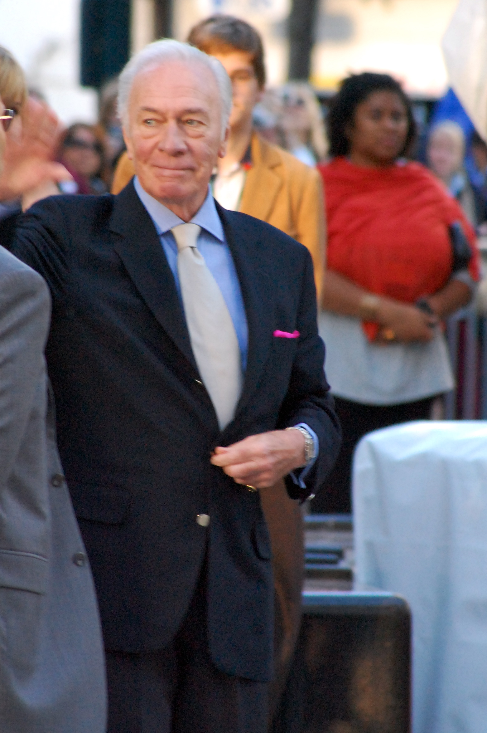 Imaginarium of Doctor Parnassus premiere - September 18, 2009 - Roy Thomspon Hall